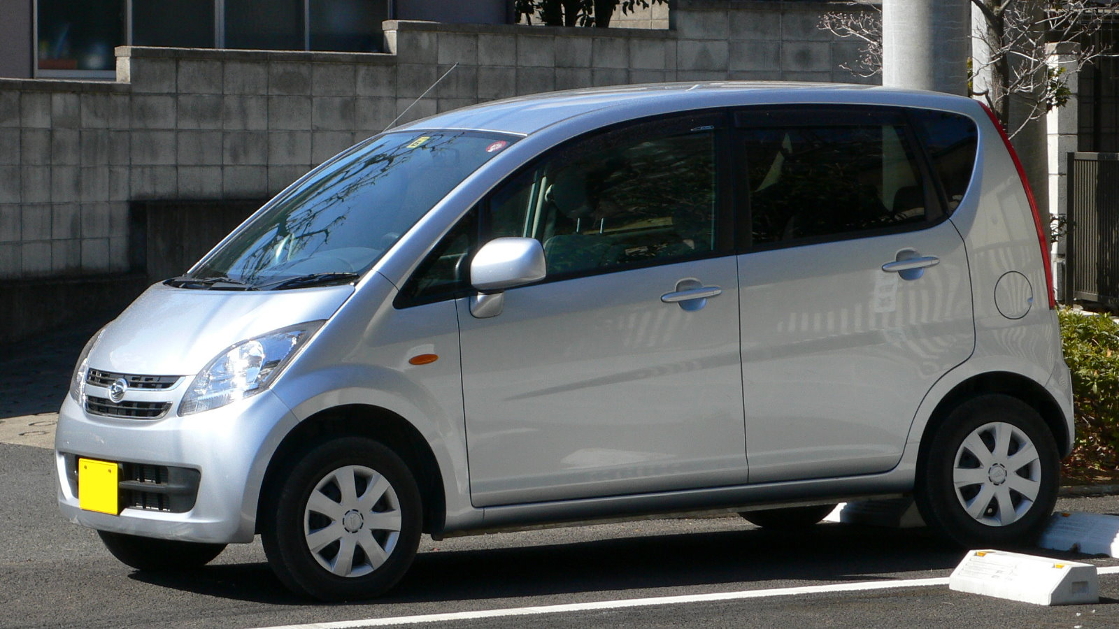 4th generation Daihatsu Move (Normal spec) (2006/10 - )